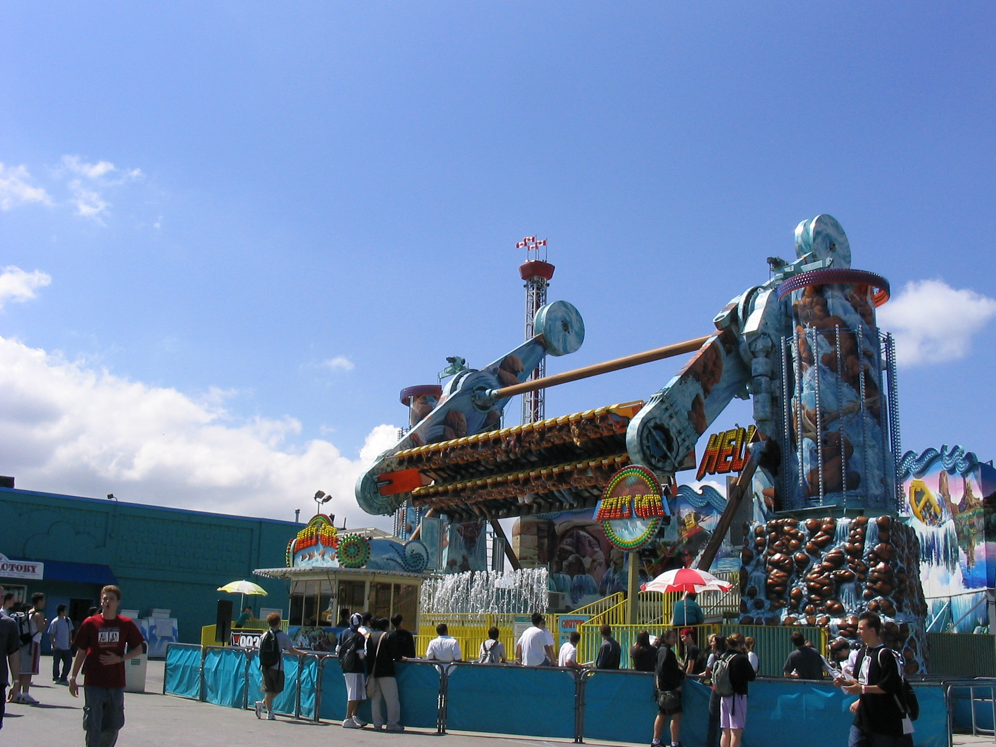 Picture of of the ride, Hell's Gate.